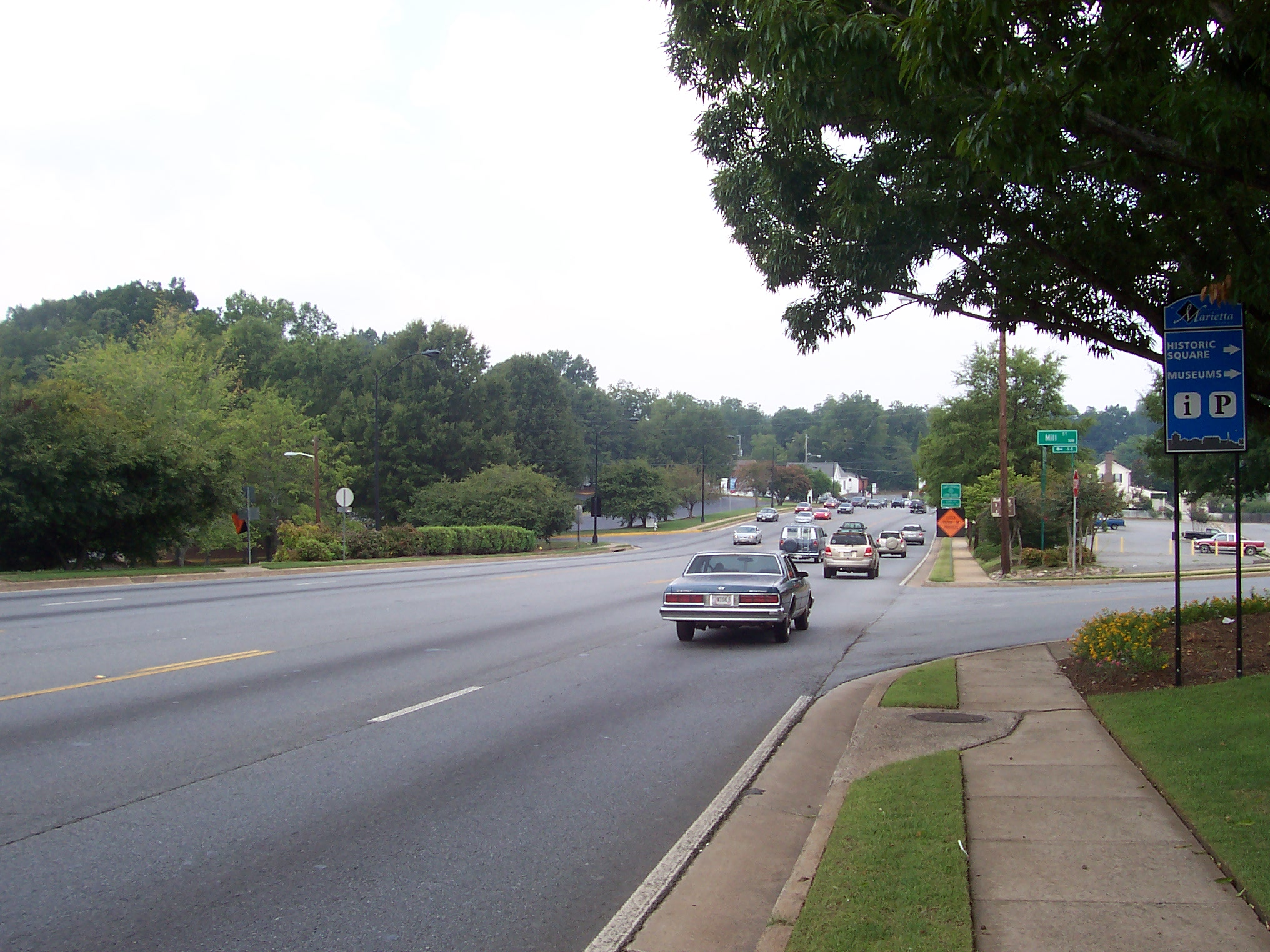 Georgia State Route 5 and Georgia State Route 120 Loop concurrency. Taken by me, September, 2006.